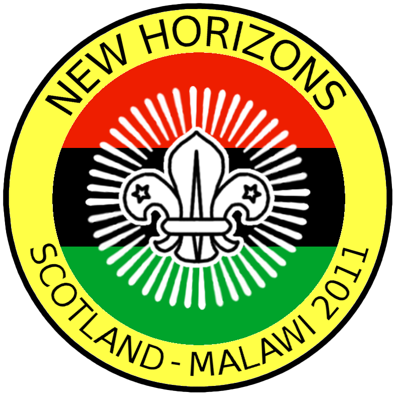 The badge of the New Horizons Scotland - Malawi 2011 expedition. The new Malawian flag has been adapted to show the Scout symbol in the centre.